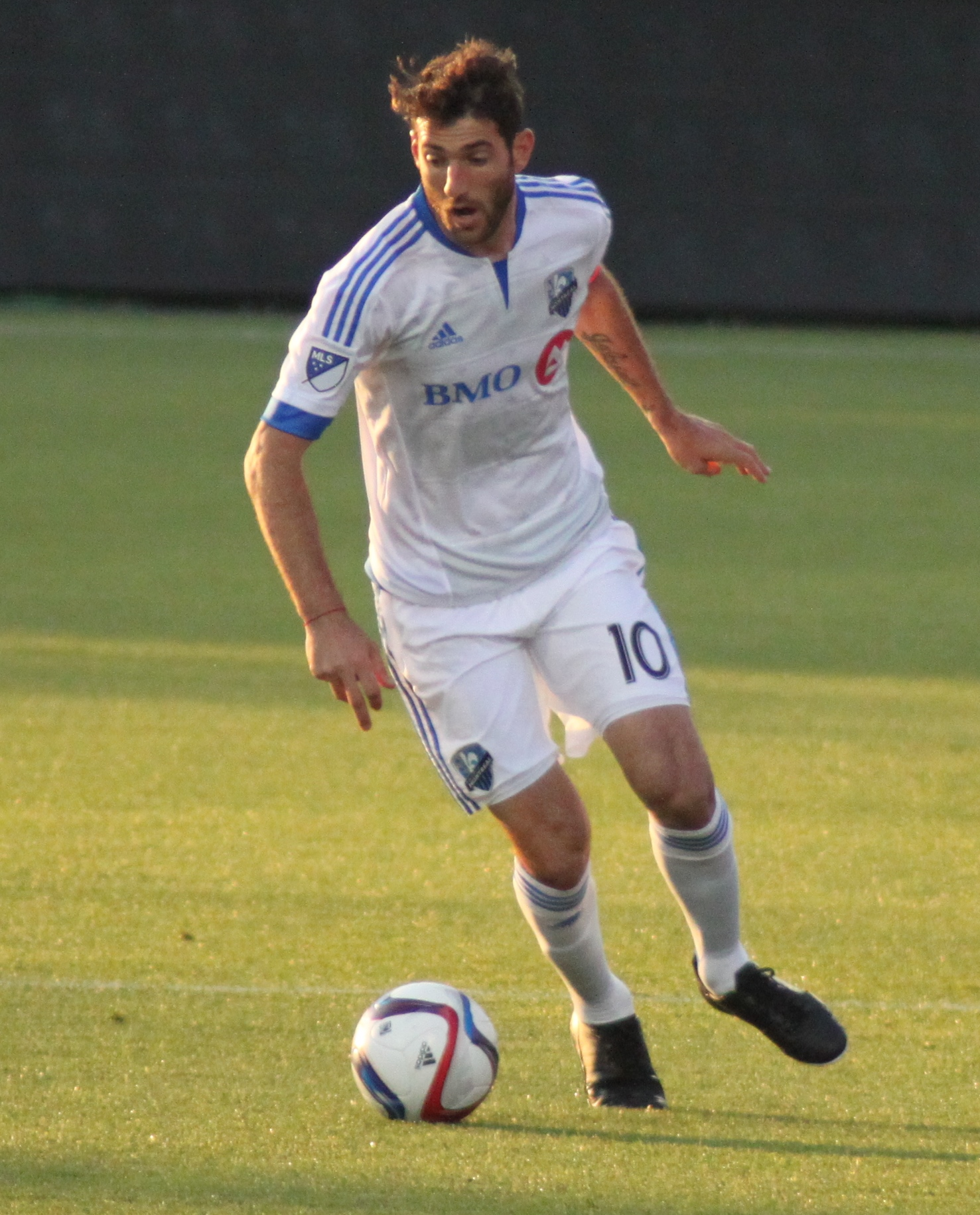 2015-06-24 Toronto FC vs. Montreal Impact @ BMO Field